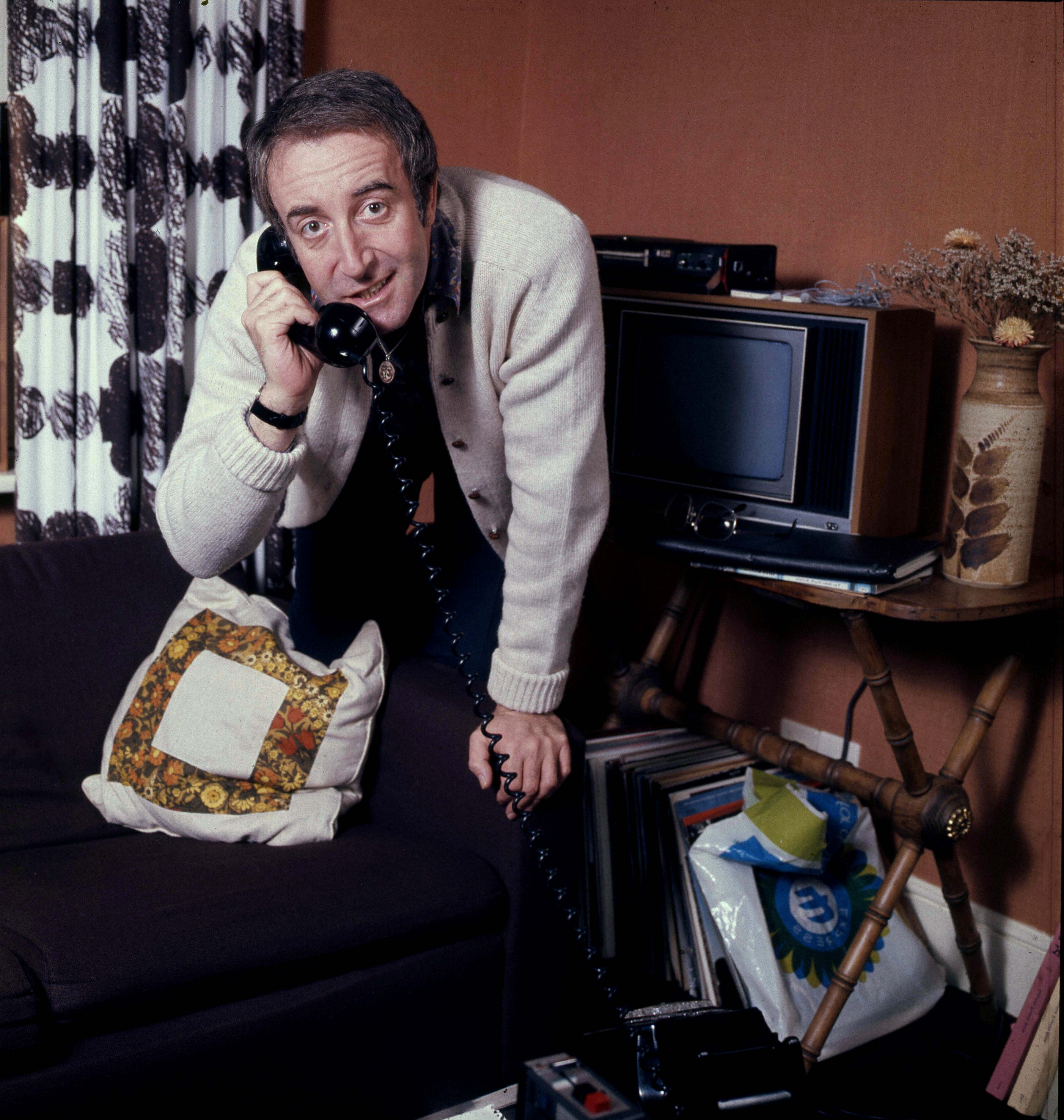 Peter Sellers